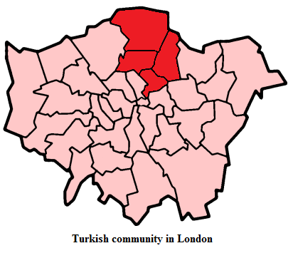 Map of London illustrating the Turkish community (according to The Guardian: [1])